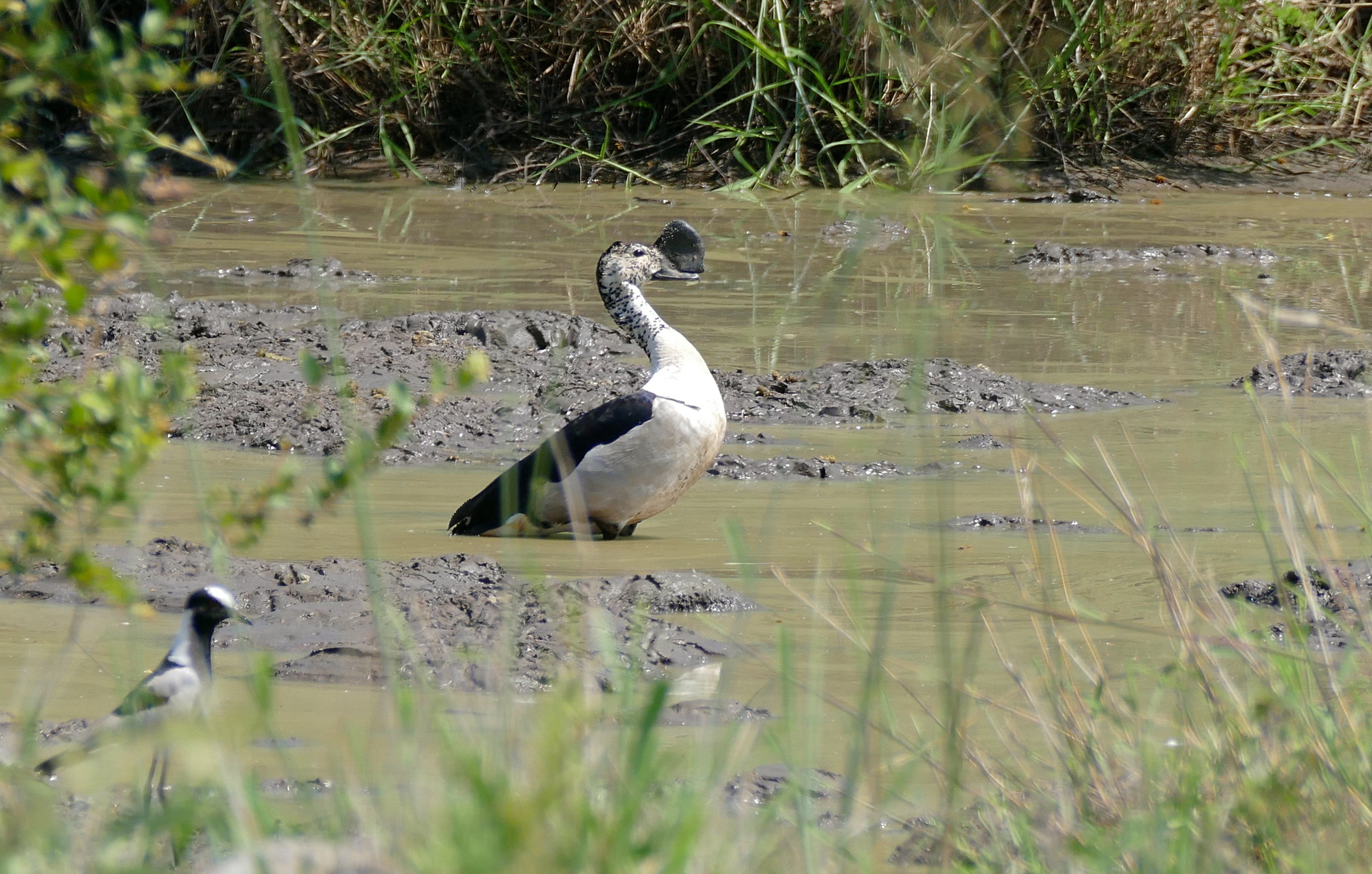 S39 Road South of Olifants, Kruger NP, SOUTH AFRICA